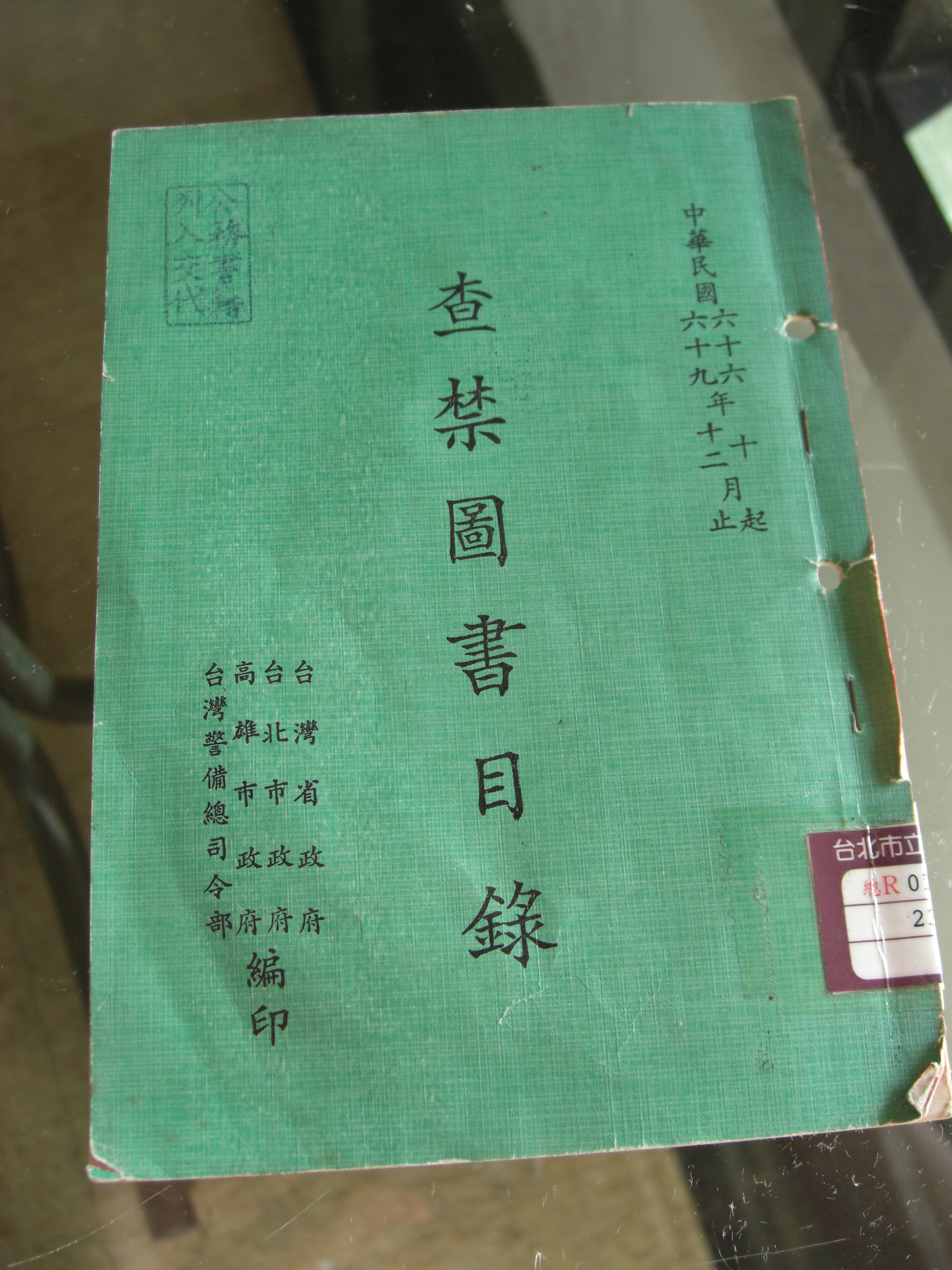 Taiwan banned book contents 中華民國66年10月至69年12月查禁圖書目錄，臺灣省政府、臺北市政府、高雄市政府、臺灣警備總司令部編印。